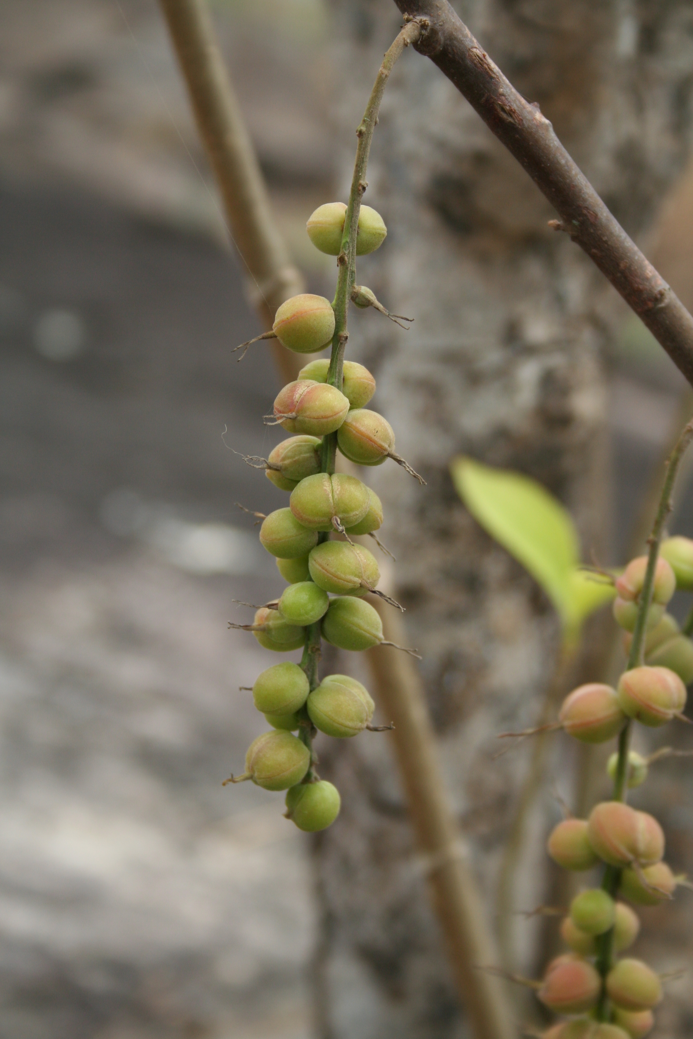 fruits of Alchornea cordifolia, near Yaoundé, Cameroon